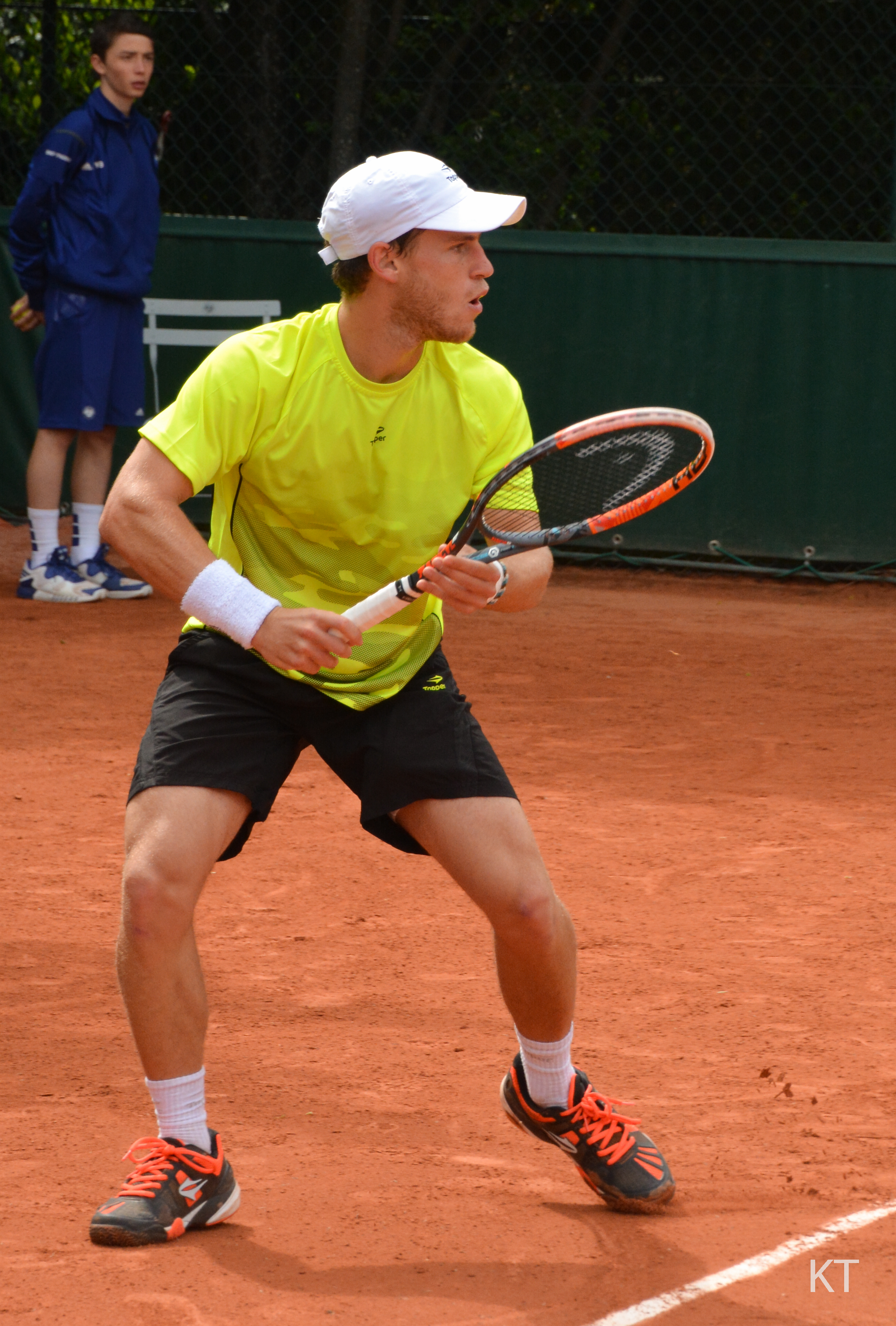 Day 2 of Roland Garros 2016.